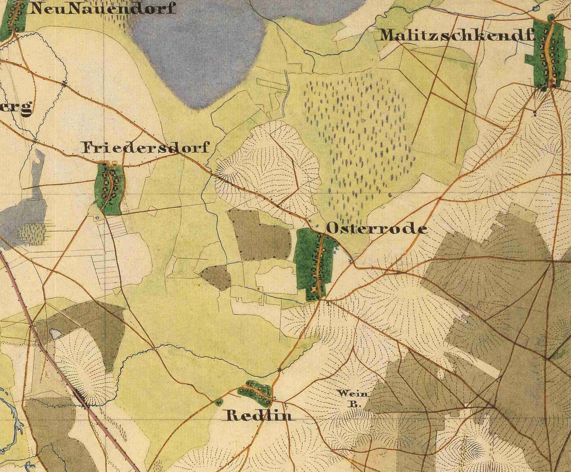 Herzberg (Elster), Lkr. Elbe-Elster, Brandenburg, Germany, detail from the Urmesstischblatt Sheet 4345 Herzberg, drawn in 1841